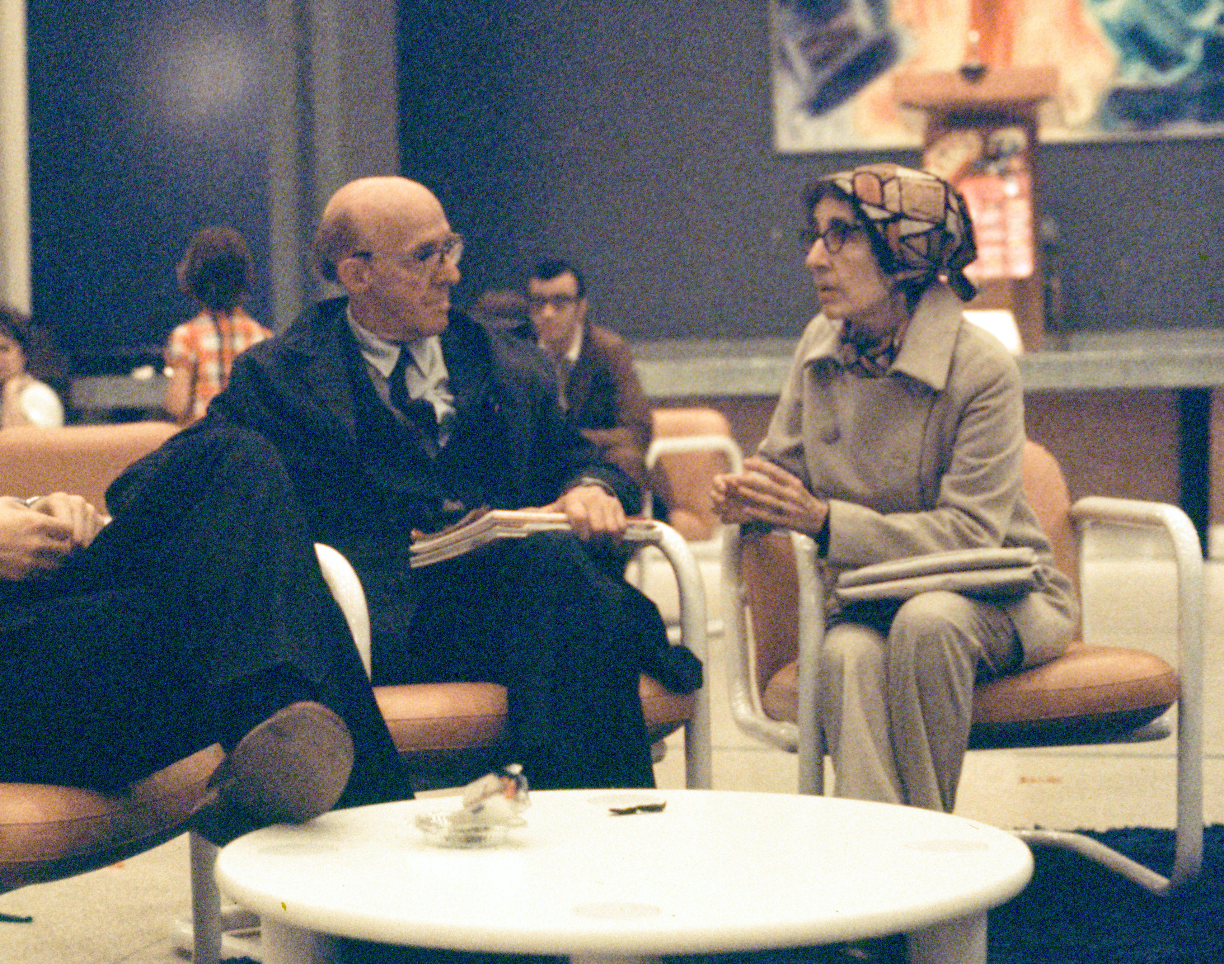 Rodolphe Vincent and Odette Fumet in Montreal in 1973. Supplementary technical data: digitization of a 35mm slide. Original camera: Nikon F with 43-86mm Nikkor lens.